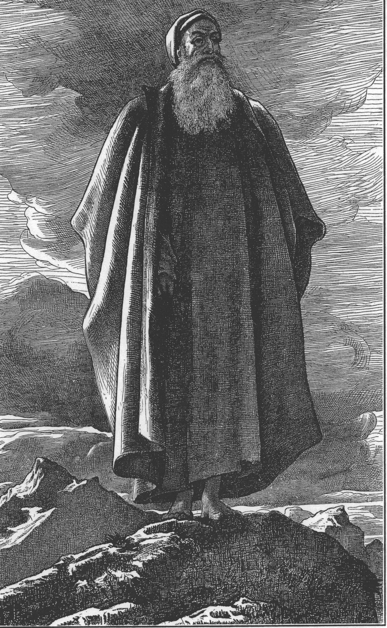 Moses views the Promised Land, by Lord Frederic Leighton, wood-engraving from Illustrations for “Dalziels' Bible Gallery”, engraved by the Dalziel Brothers and published 1881